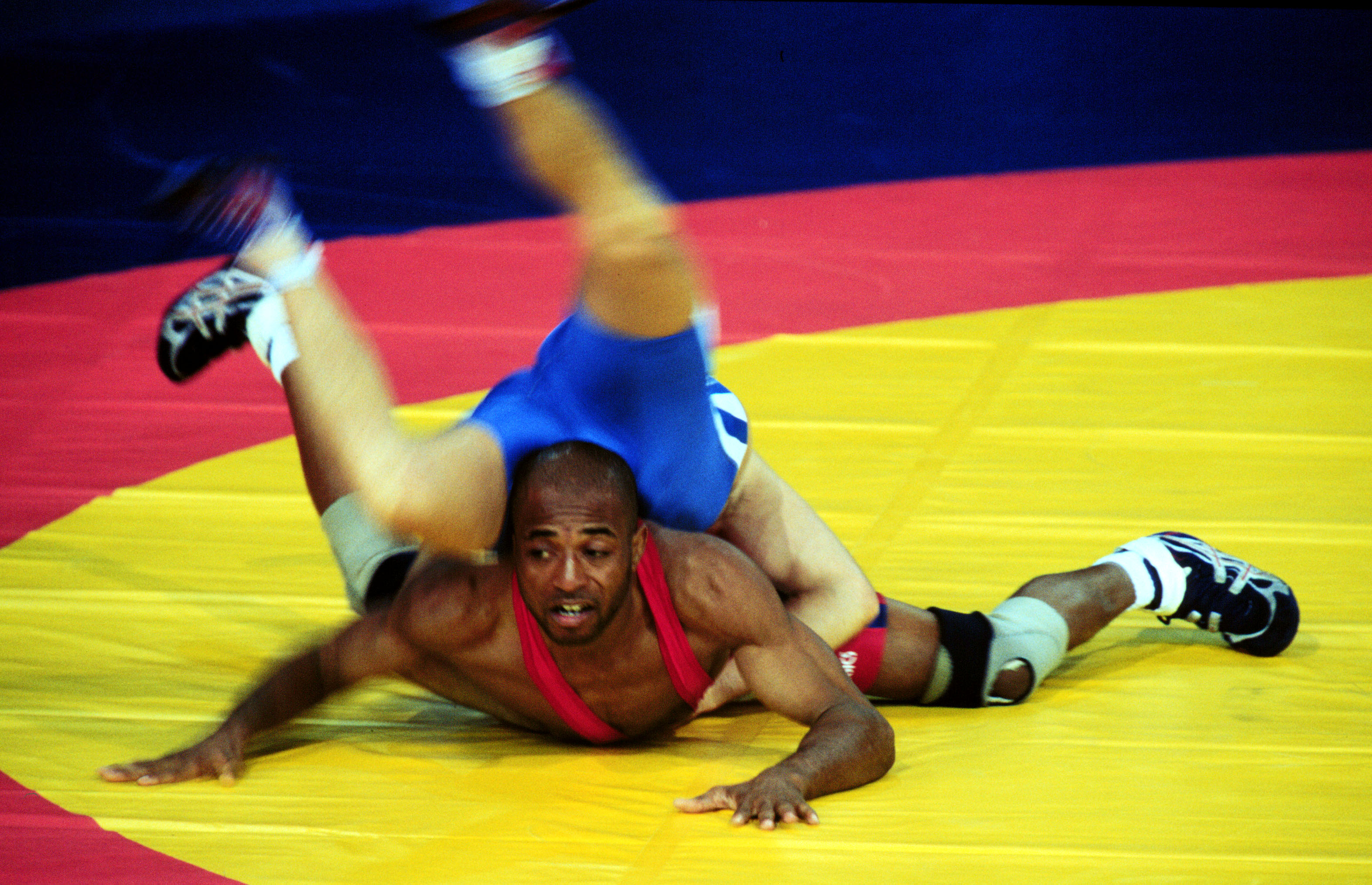 Navy Petty Officer 1st Class Steven Mays (red), tries to fight off being pinned by Uran Kalilov, of Kyrgyzstan, during their Greco-Roman wrestling match at the 2000 Olympic Games in Sydney, Australia, on Sept. 24, 2000. Mays is one of fifteen U.S. military athletes competing in the 2000 Olympic games as members of the U.S. Olympic team. In addition to the 15 competing athletes there are eight alternates and five coaches representing each of the four services in various venues. Mays is a Navy aviation boatswain's mate (Launch and Recovery Equipment) attached to the aircraft carrier USS John F. Kennedy (CV 67). Mays lost the match to Kalilov, but wasn't pinned.